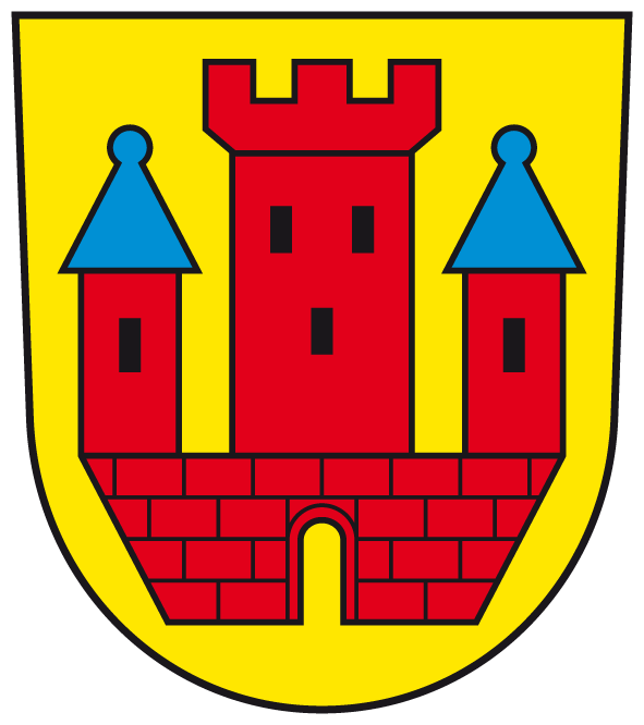 Coat of arms of Burgschwalbach